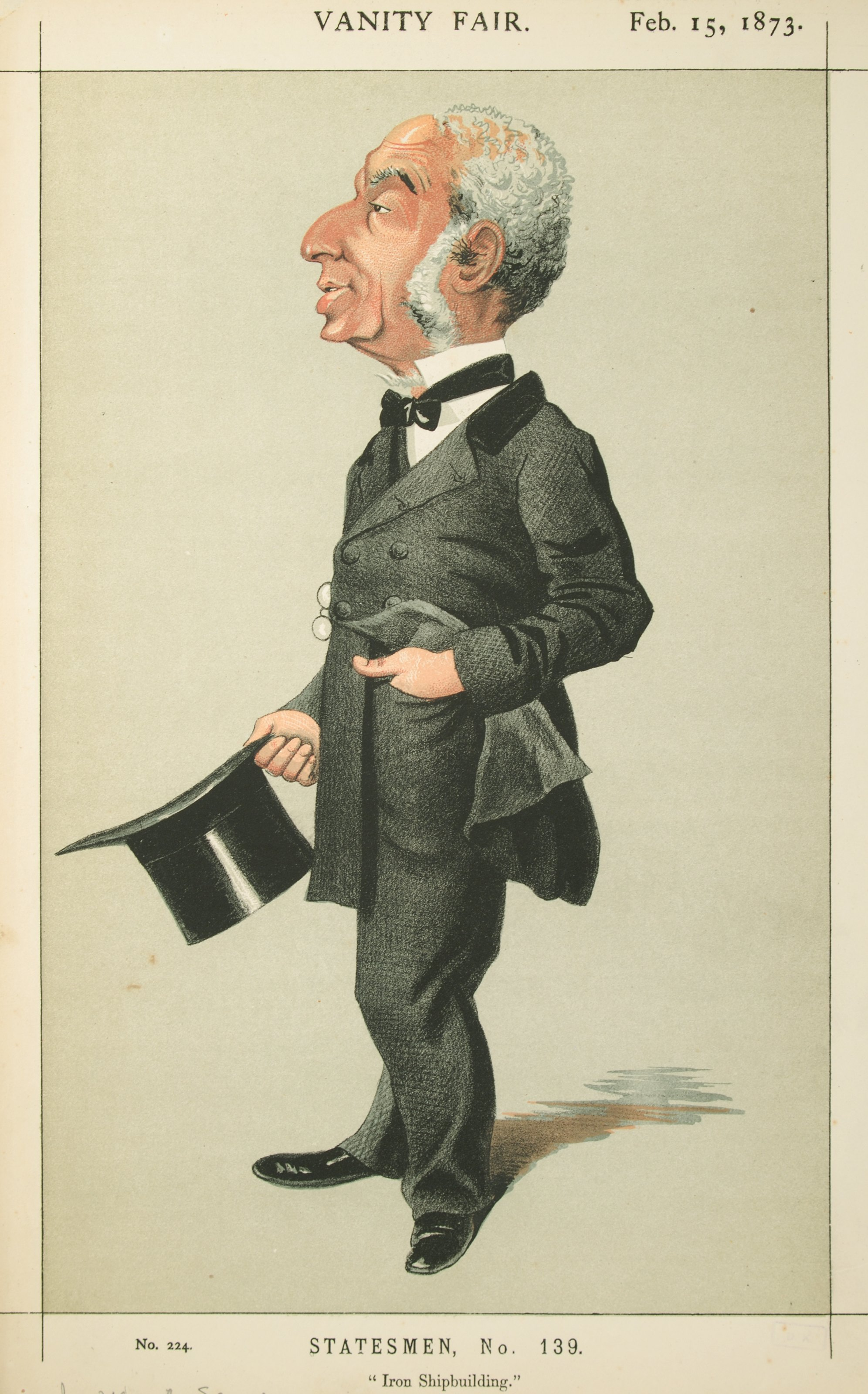 Statesmen No.139: Caricature of Mr. Joseph d'Aguilar Samuda, Member of Parliament, Shipbuilder,. Caption reads: "Iron Shipbuilding"